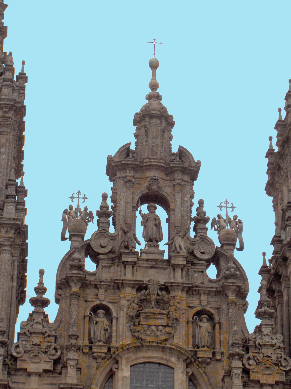 Centre gable with statue of St. Jacob; façade of the cathedral of Santiago de Compostela, Spain